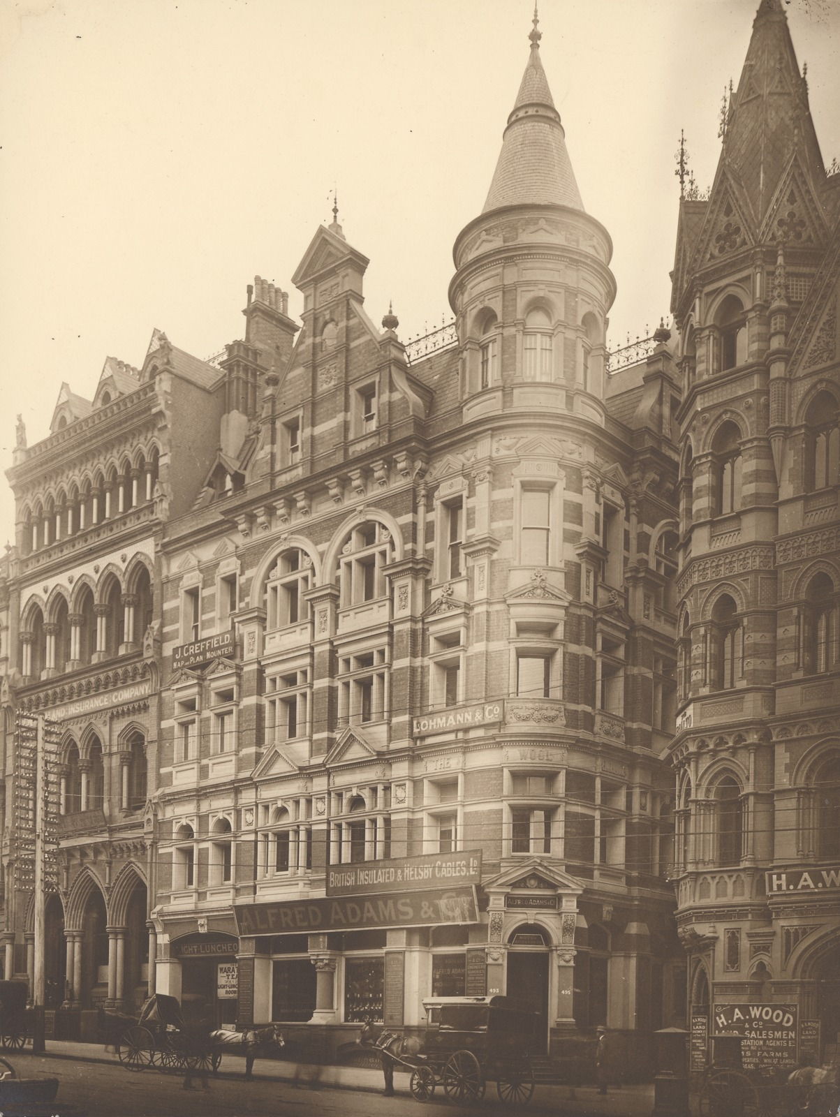 Designed by William Pitt, the Rialto is a Venetian style building which opened in 1891. Originally a commercial building, it had space for 300 offices and 14 warehouses. The gothic towers, balconettes and arched windows were inspired by the palazzos of Venice. Early occupants were the Melbourne wool exchange and Melbourne Metropolitan Board of Works. The Rialto is notable as an illustration of Melbournees building boom during the early 1890s. Shortly after, the economic depression that hit Melbourne halted building for almost 10 years.